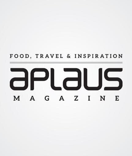 Logo Magazine